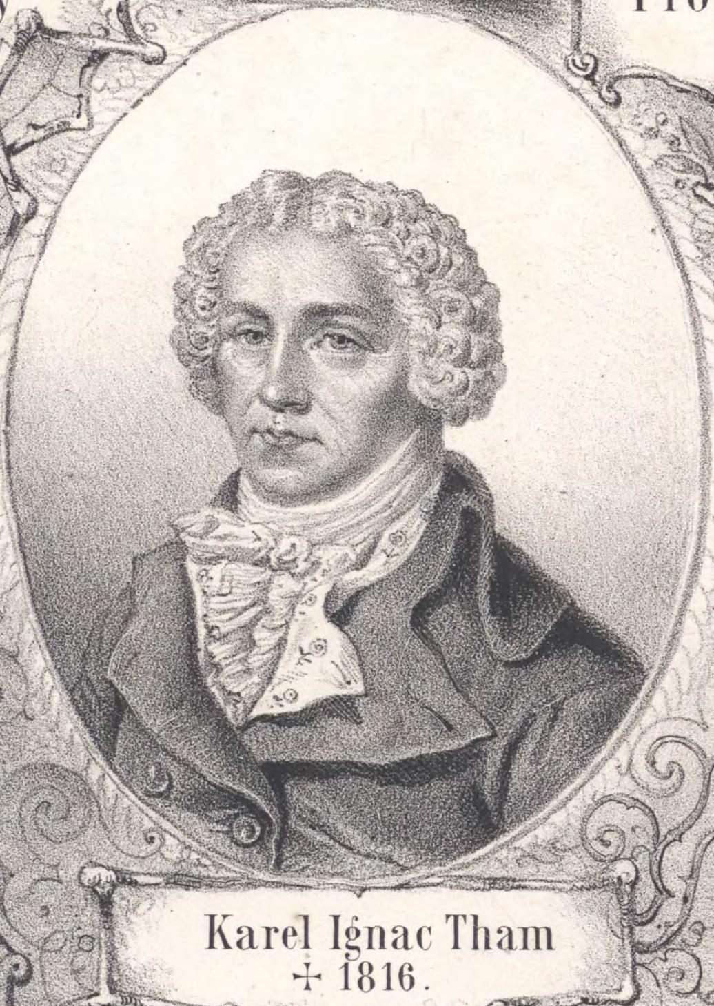 Portrait of Karel Ignác Thám (1763 - 1816), Czech patriotic writer.